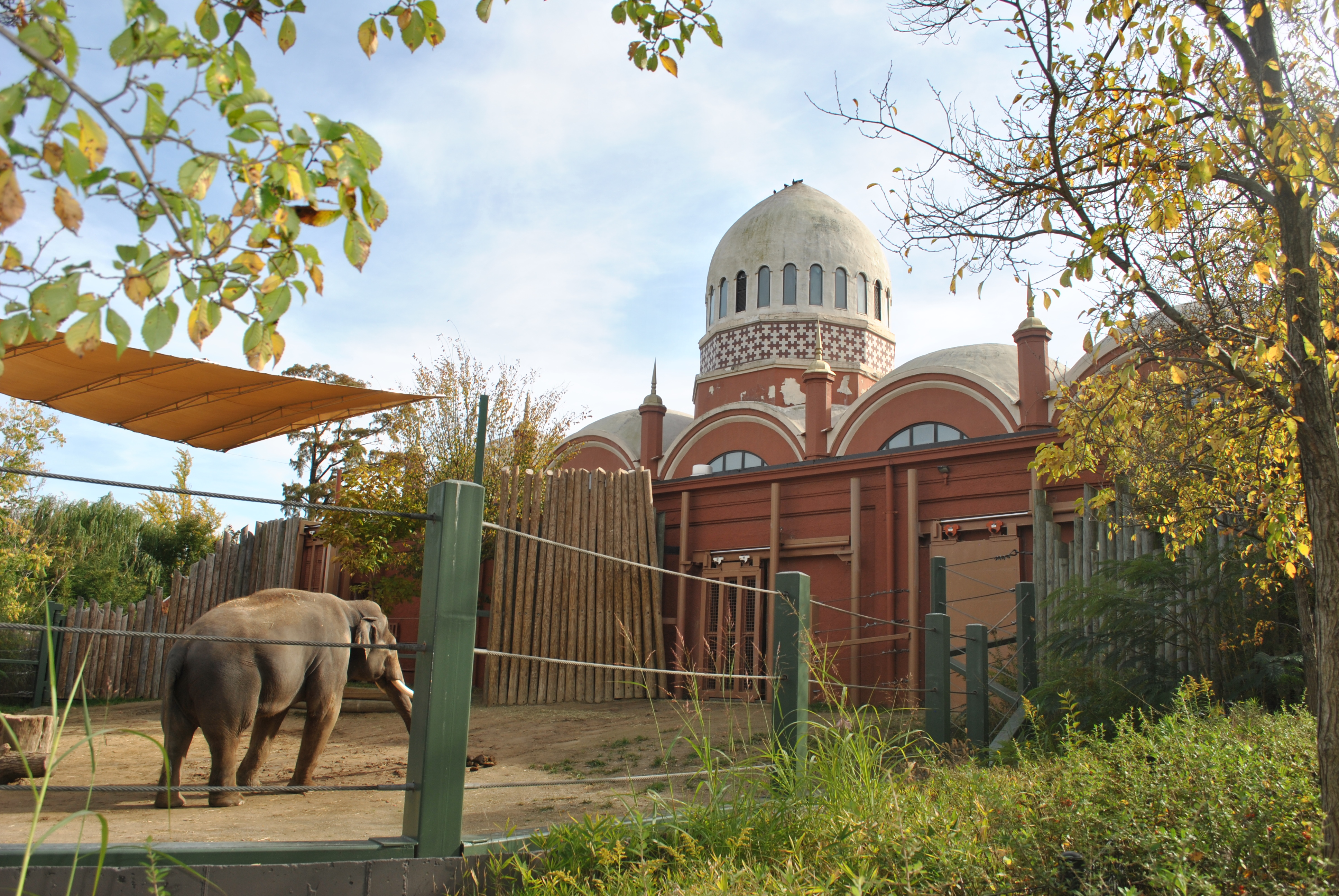 Cincinnati Zoo - Elephant House View 3